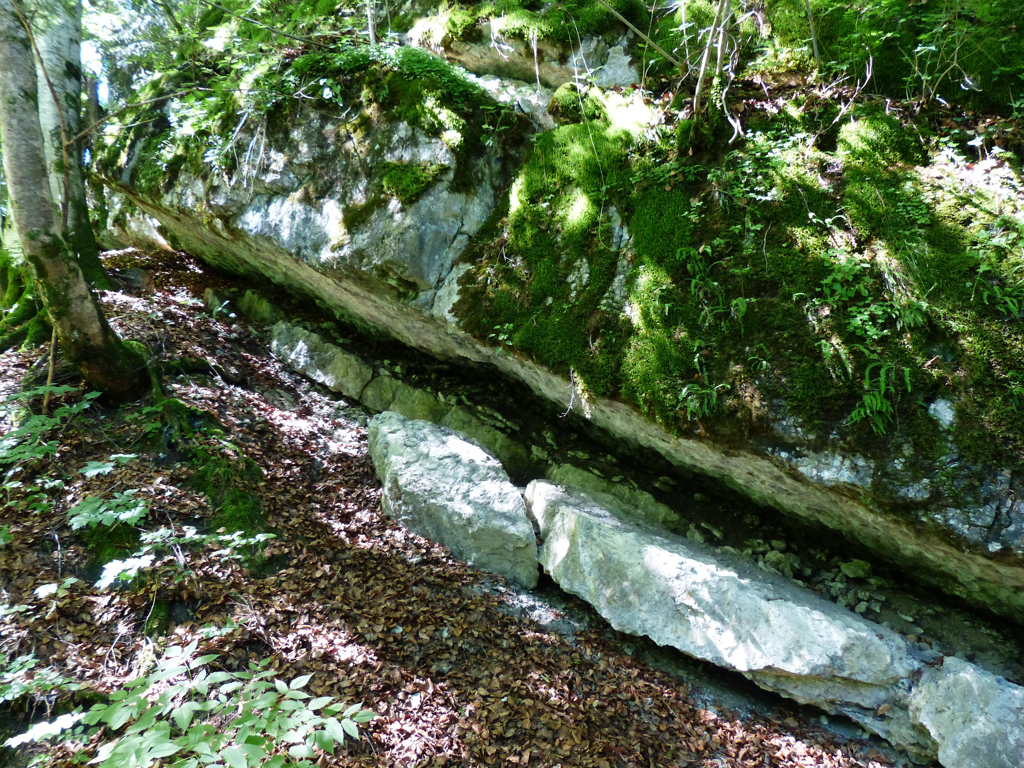 Layers of Partnach chalk at the slopes west of the Partnach Gorge